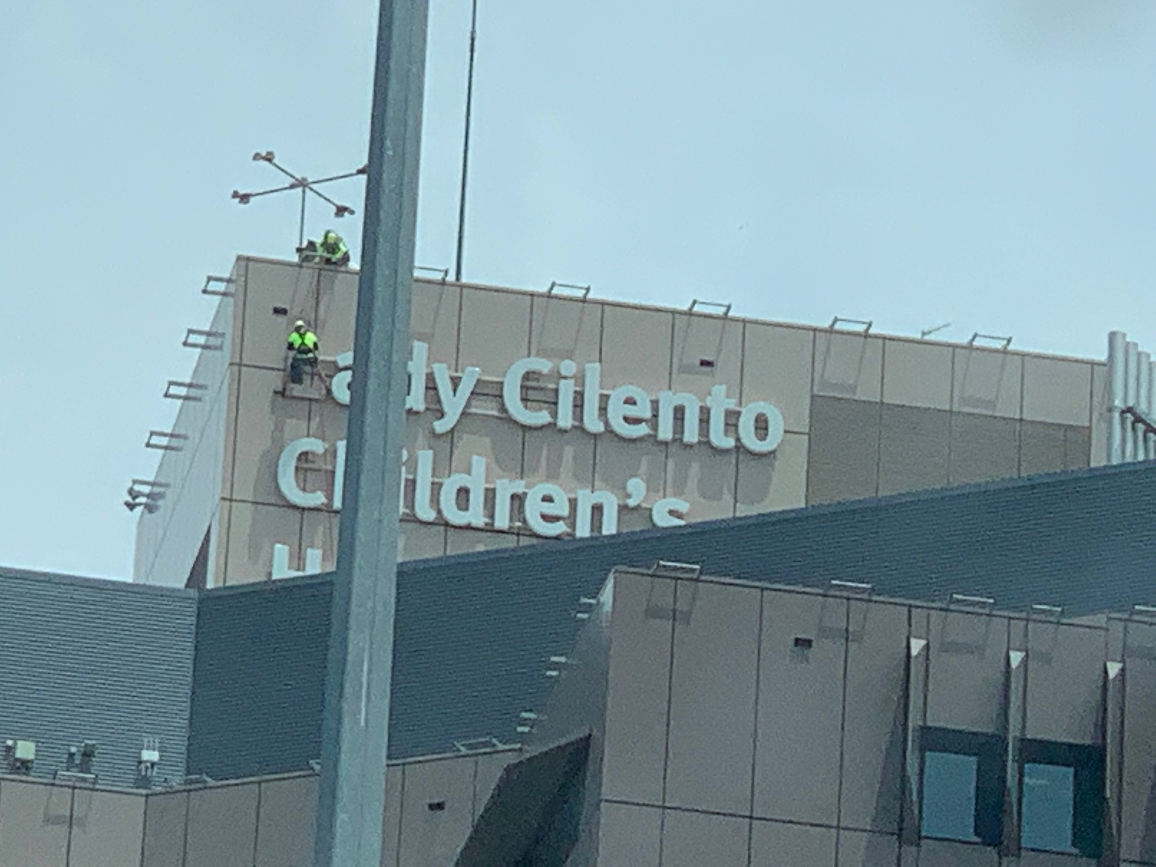 Worker's removing the L from the Lady Cilento Children's Hospital building, 13 December 2018, to facilitate the renaming as Queensland Children's Hospital